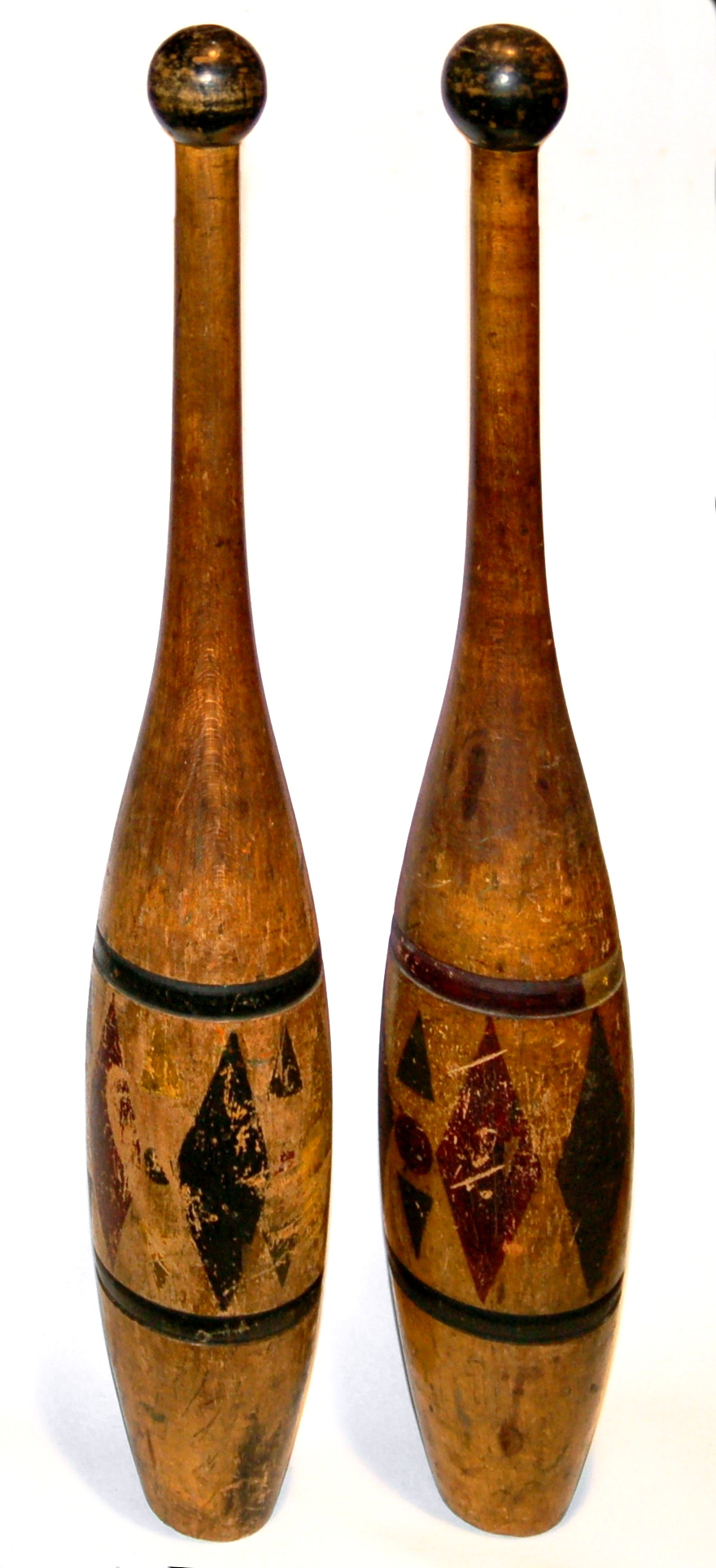 A pair of 19th century wood polychromed Indian Clubs, 28oz, 20" tall.